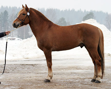 Finnhorse stallion Turon Myrsky at the age of 6 years, trotter section, at Kiuruvesi stallion show in 11.3.2008. Score 9-8-8-8/8-8 (of 10).